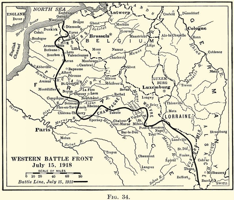 Map Of The Western Front July 15 1918.